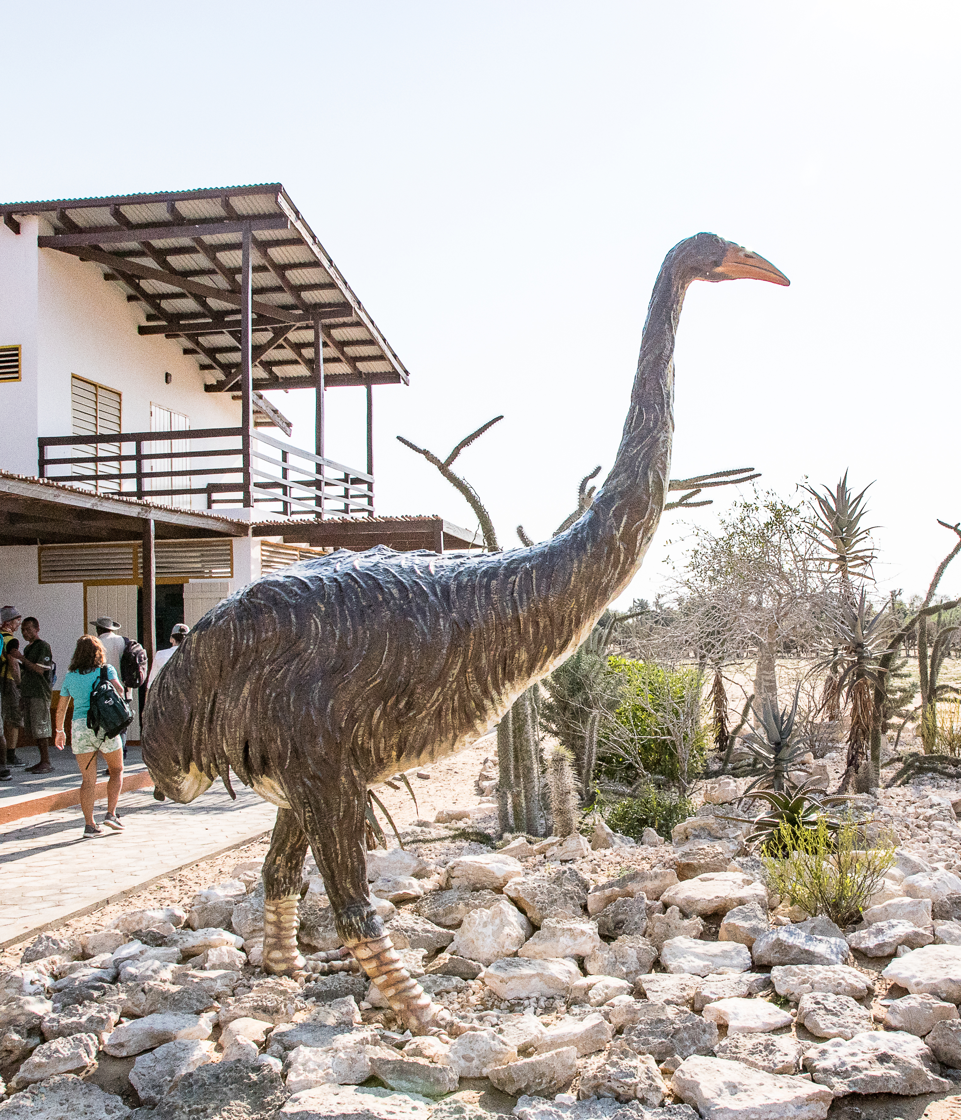 statue of the extinct elelphant bird